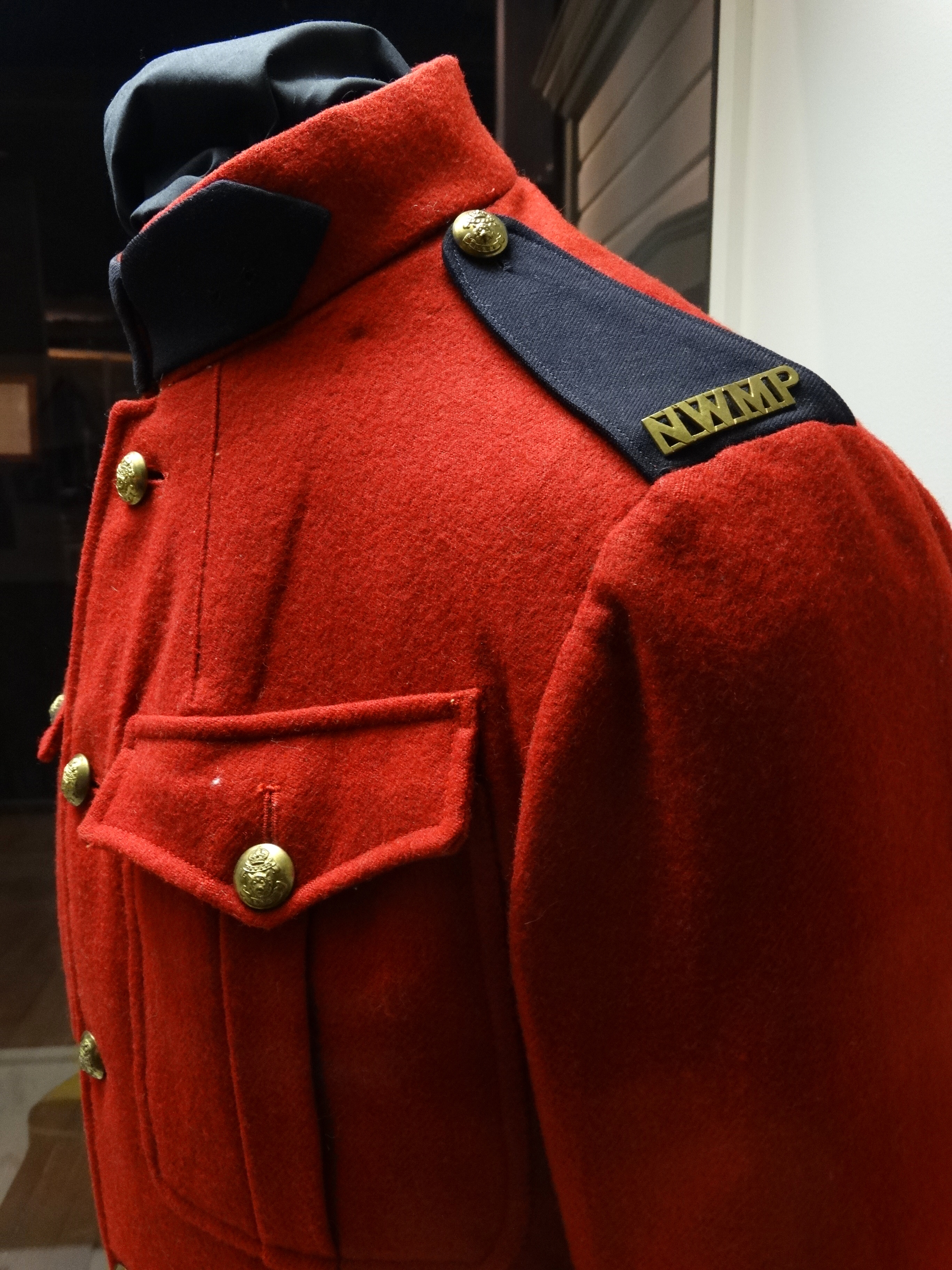 North West Mounted Police Uniform - Dawson City Museum - Dawson City - Yukon Territory - Canada